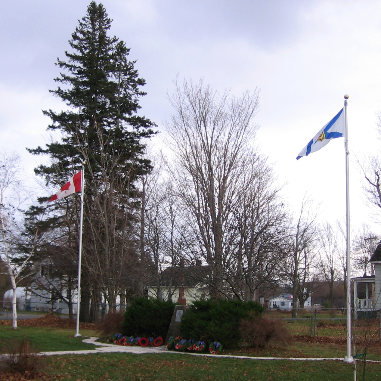 Ayles cenotaph, Aylesford Nova Scotia